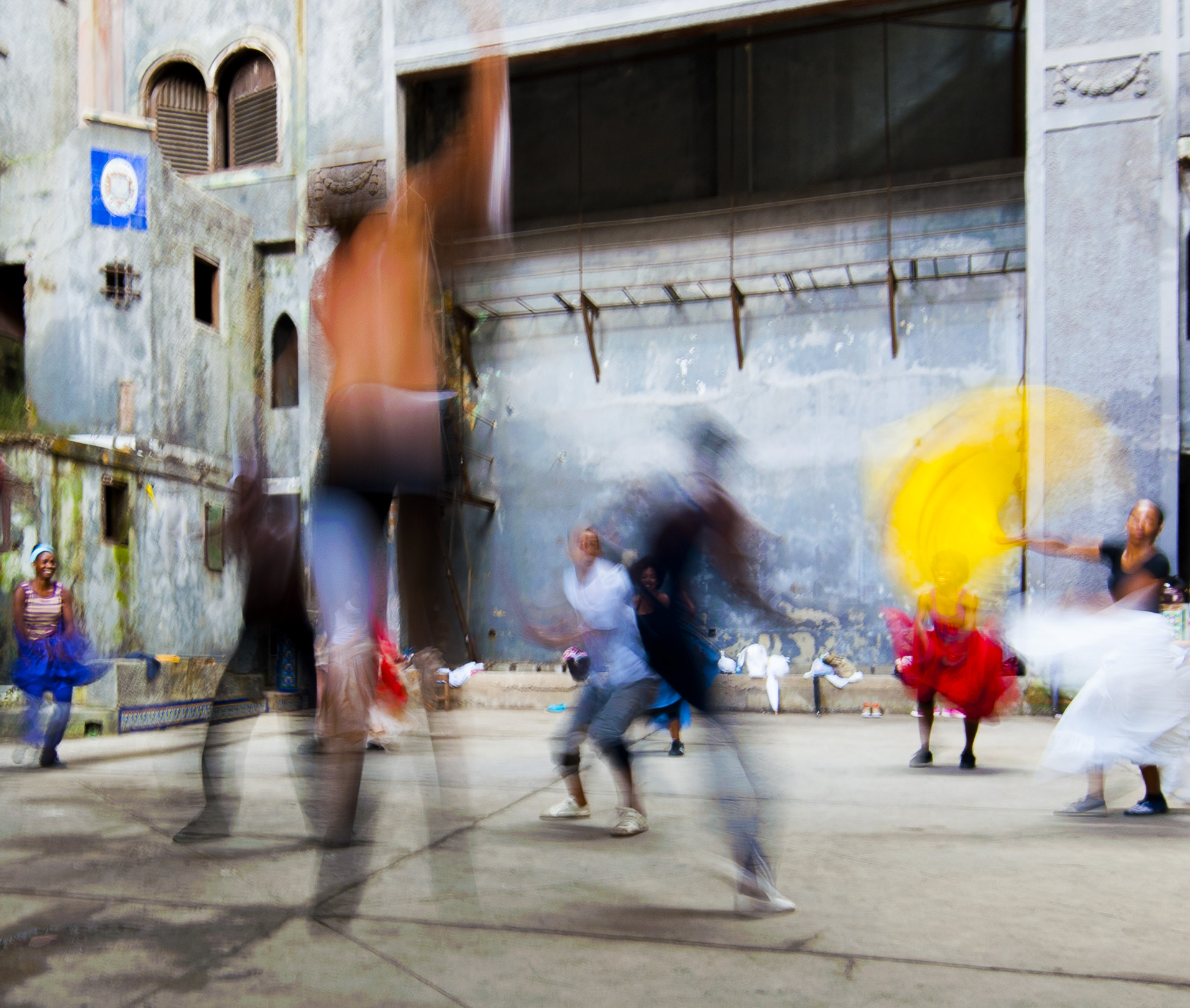 Banrarra Afro-Cuban dance troupe, Jan 2014, image by Marjorie Kaufman